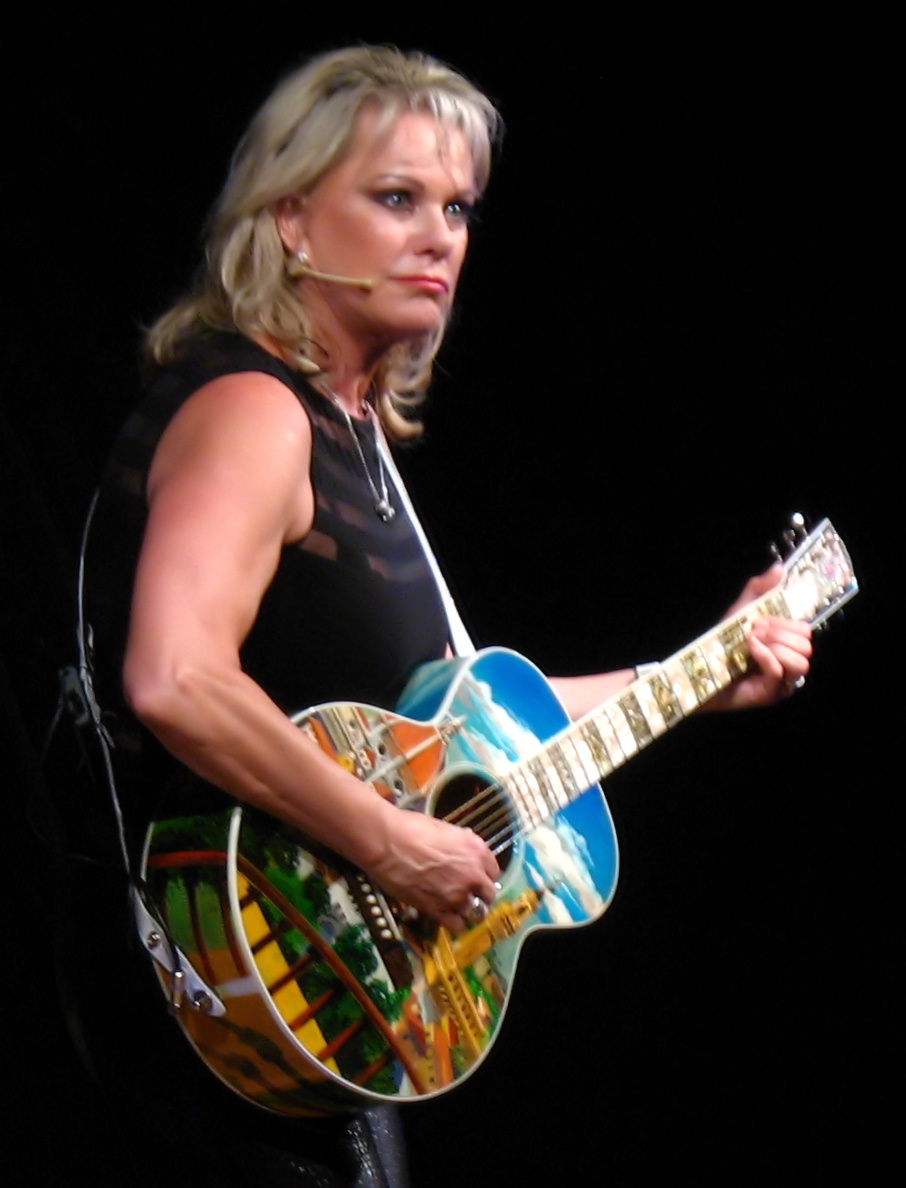 Lisa Fitz, 2009